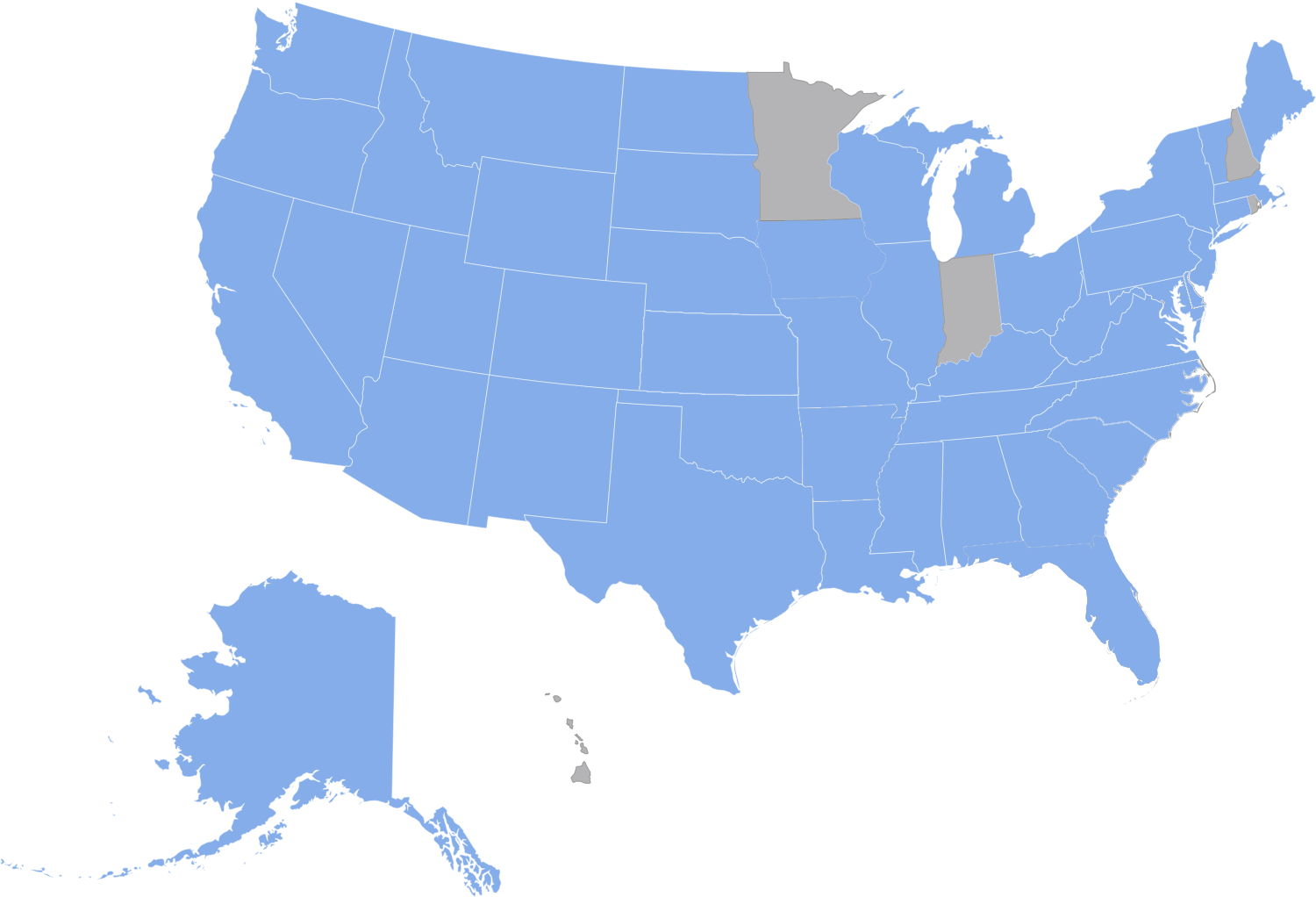 US States that have designated an official State Fossil , either under the name "State Fossil" or "State Dinosaur", or in Florida, "State Stone".